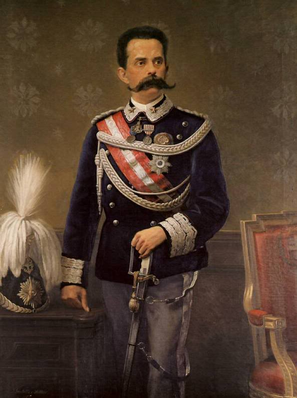 Portrait of King Umberto I